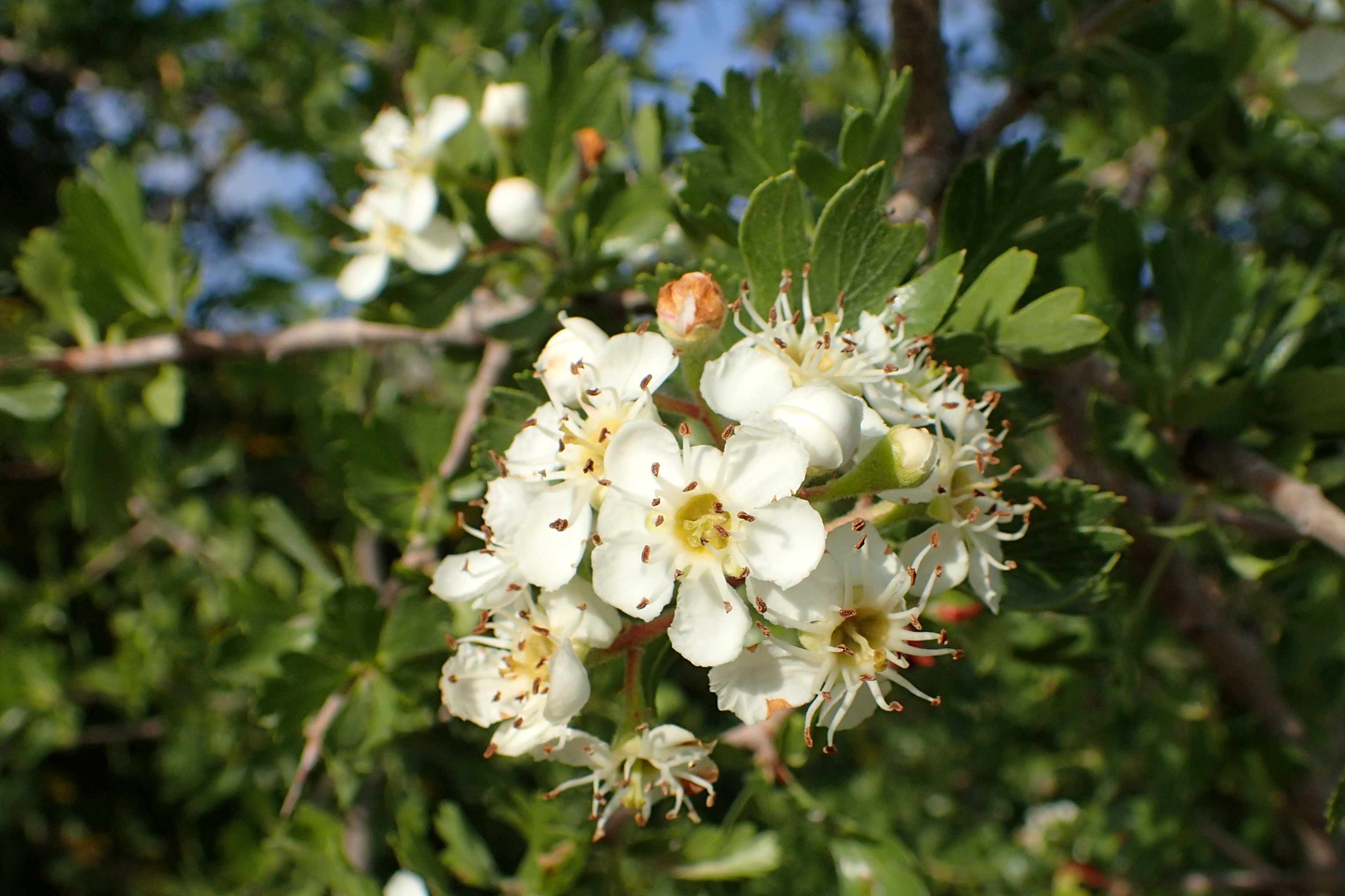 Crataegus azarolus in Tara, Cyprus